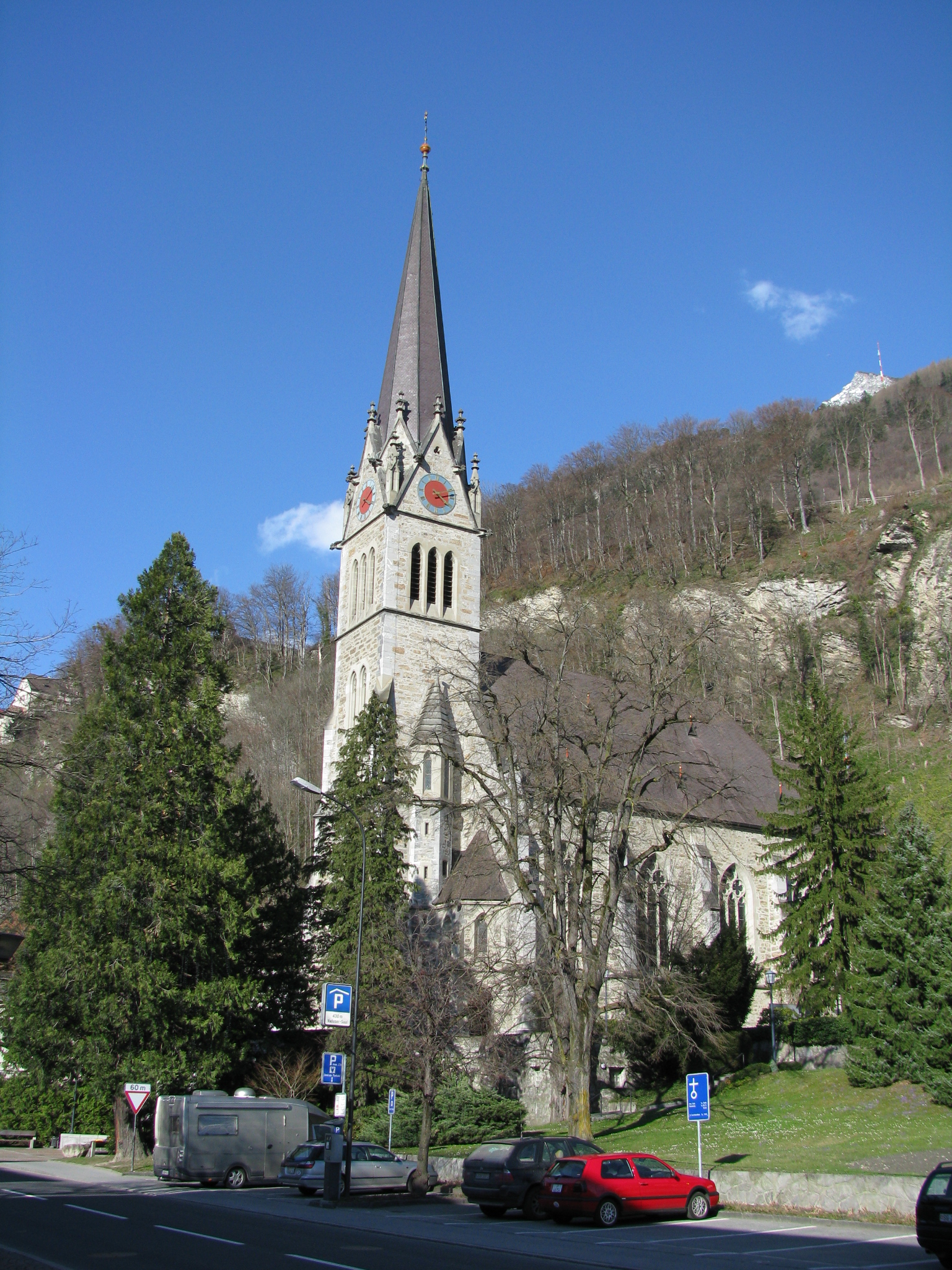 The Cathedral St. Florin in Vaduz, Liechtenstein